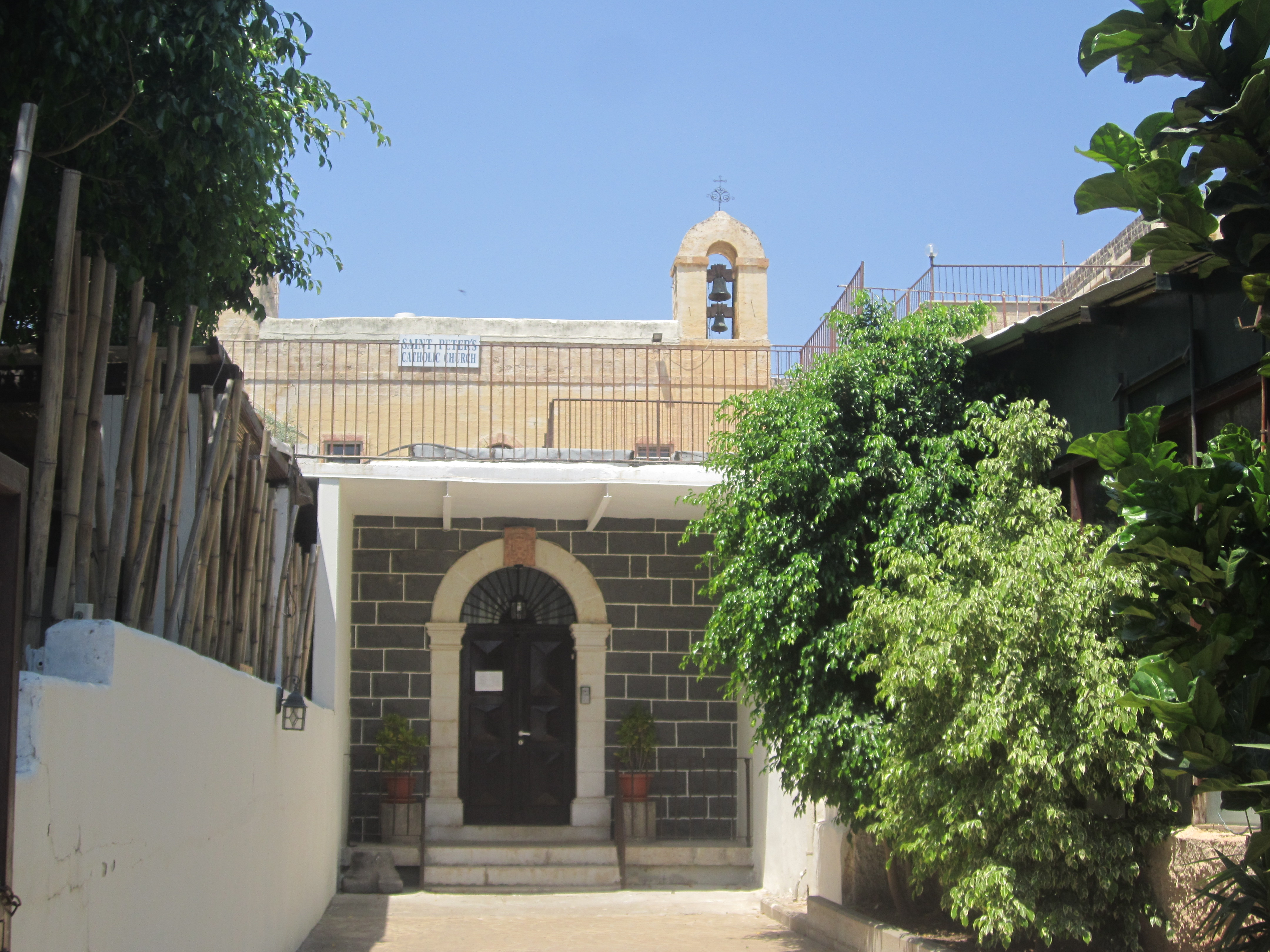 St. peters church in tiberias